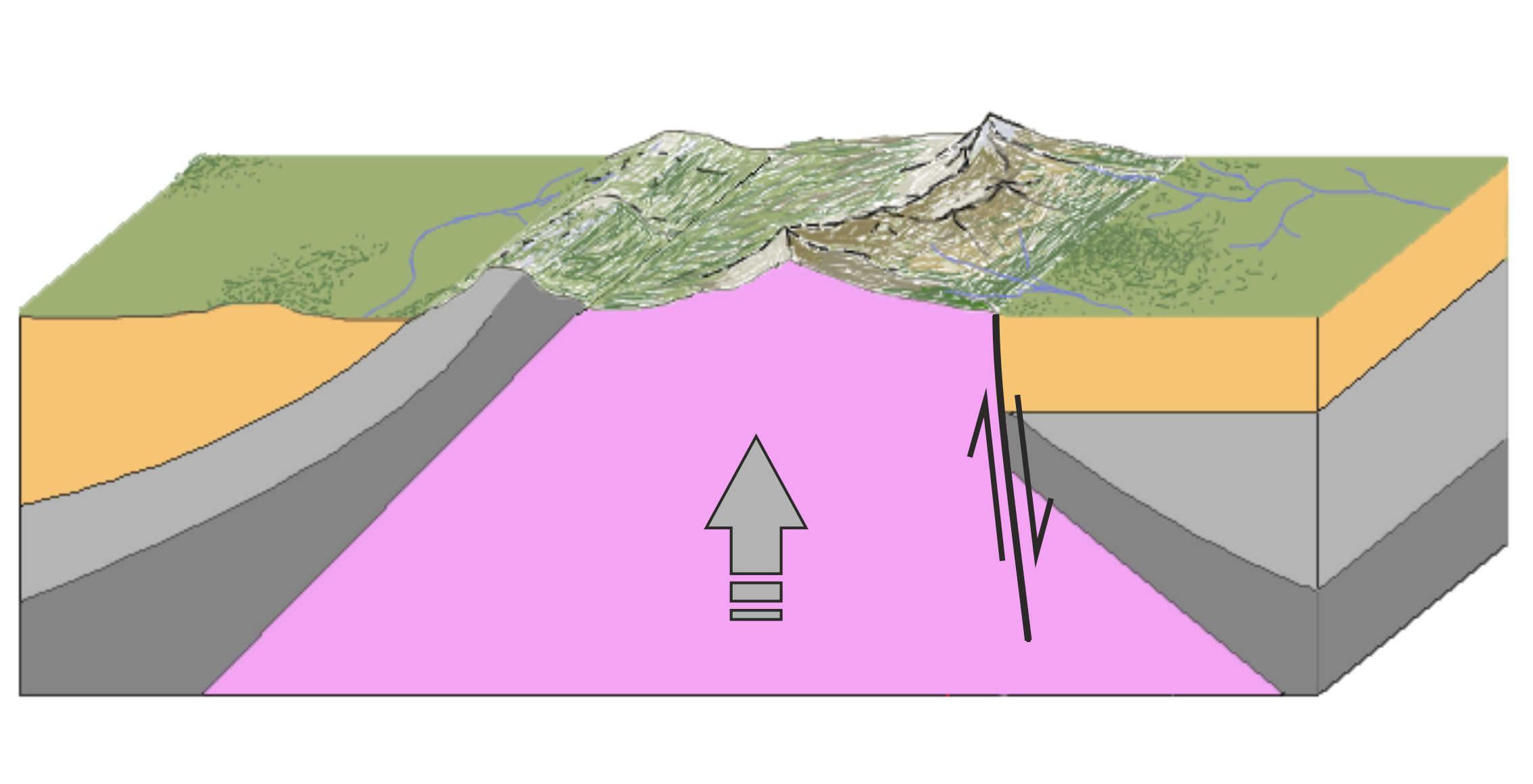 Schematic cross section through the core mountain: Cretaceous and Paleogene sedimentary cover Subtatric Nappes (Fatric and Hronic, mostly Mesozoic) Tatric cover units (Triassic-Lower Cretaceous) Crystalline basement (pre-carbonifereous)